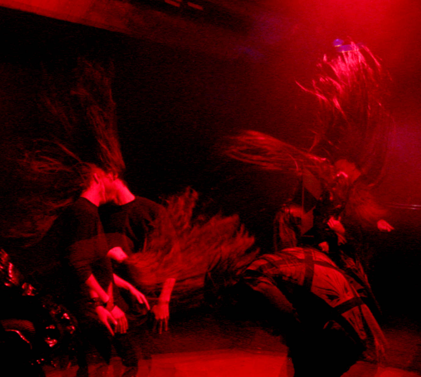 Headbangers at Club Omega: Gothic Nightclub at the Vampire: The Beast party on 2002-09-28 in Johannesburg, South Africa.